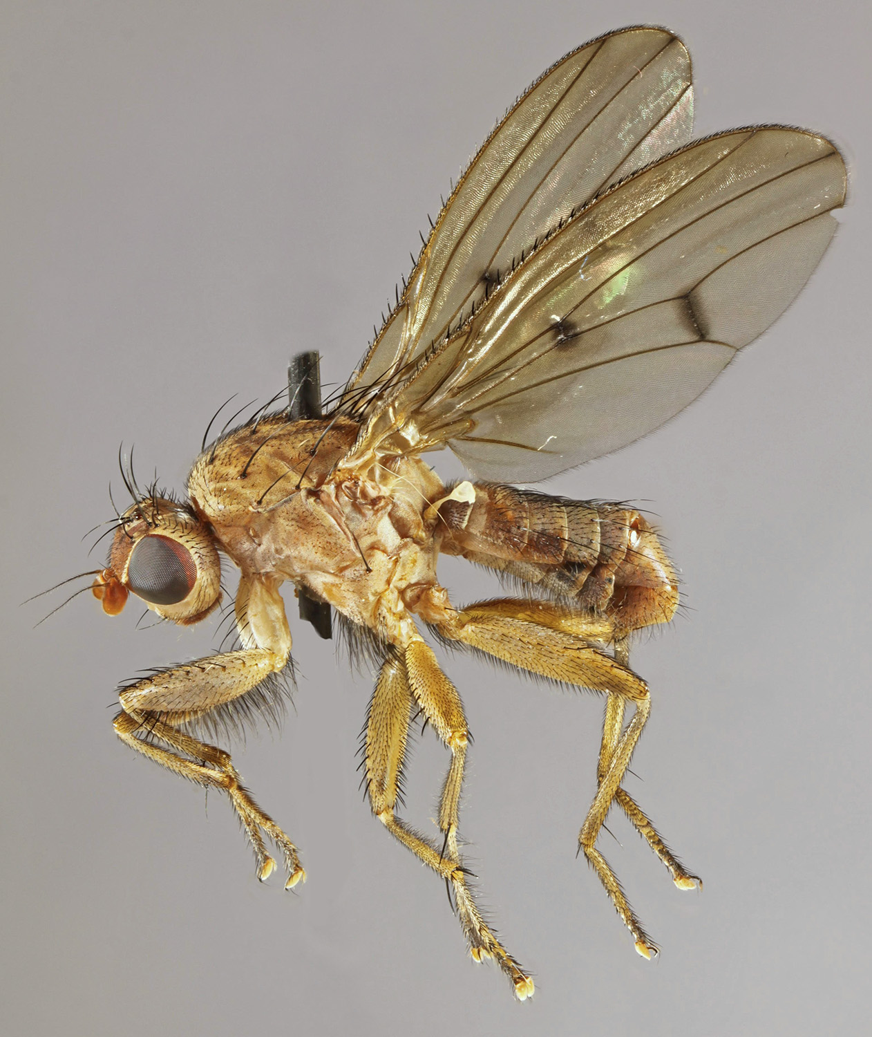 Suillia inornata, Abergwynant, North Wales, Oct 2013